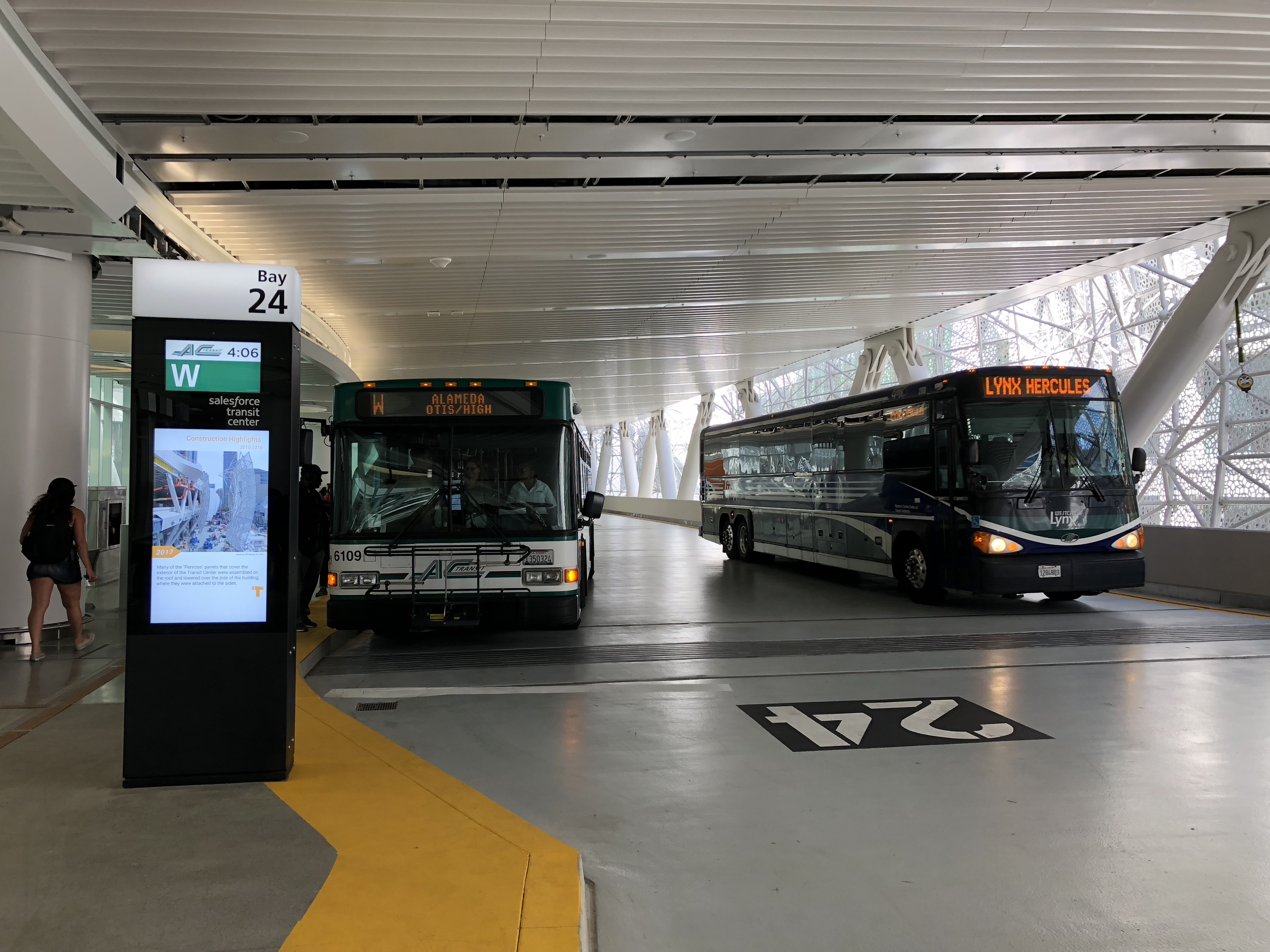 AC Transit and WestCAT buses operating inside the Salesforce Transit Center in San Francisco